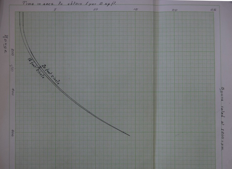 This work created by the United Kingdom Government is in the public domain. This is because it is one of the following: It is a photograph taken prior to 1 June 1957; or It was published prior to 1968; or It is an artistic work other than a photograph or engraving (e.g. a painting) which was created prior to 1968. HMSO has declared that the expiry of Crown Copyrights applies worldwide (ref: HMSO Email Reply)More information. See also Copyright and Crown copyright artistic works. Graph showing relationship between range and time of lethal burst for 8 machine guns in a fighter